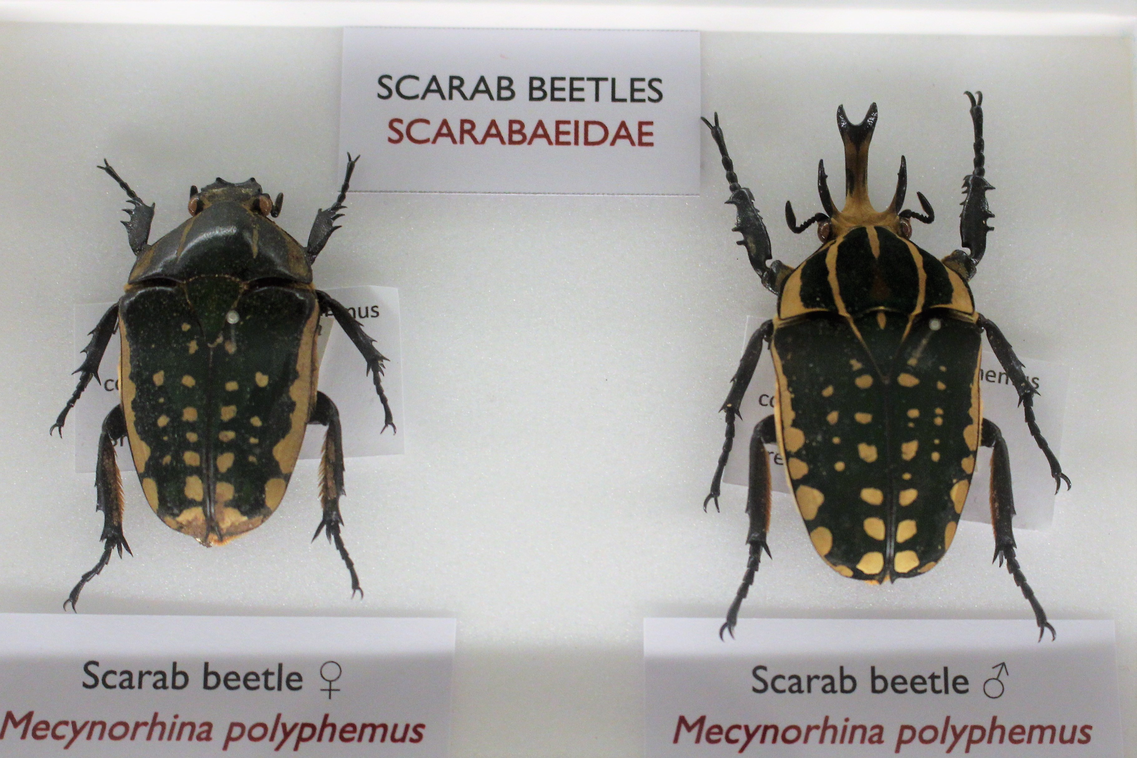 Female and male Polyphemus beetle (Mecynorhina polyphemus) at the Cambridge University Museum of Zoology, England.